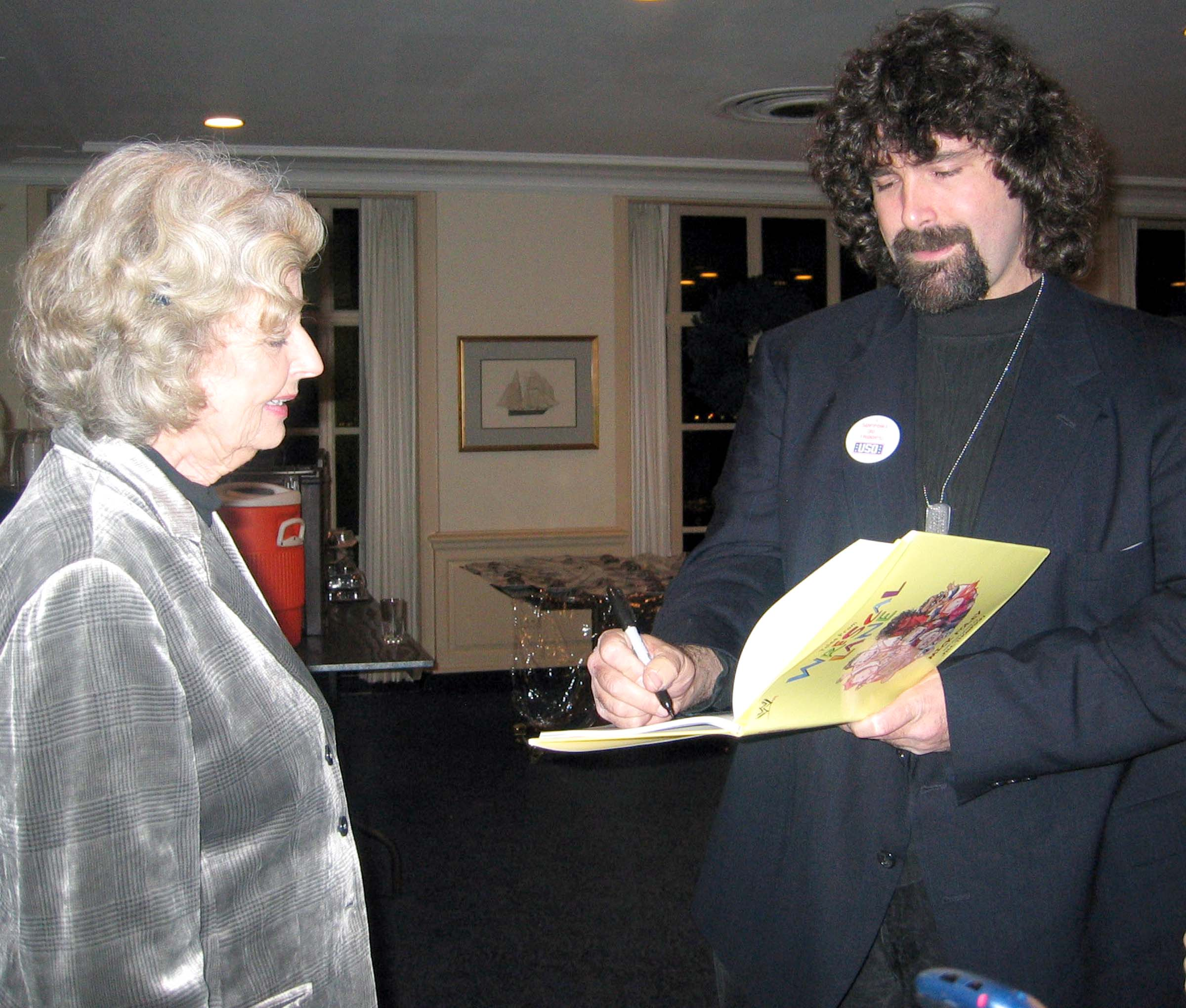 WWE wrestler Mick Foley with Joyce Rumsfeld